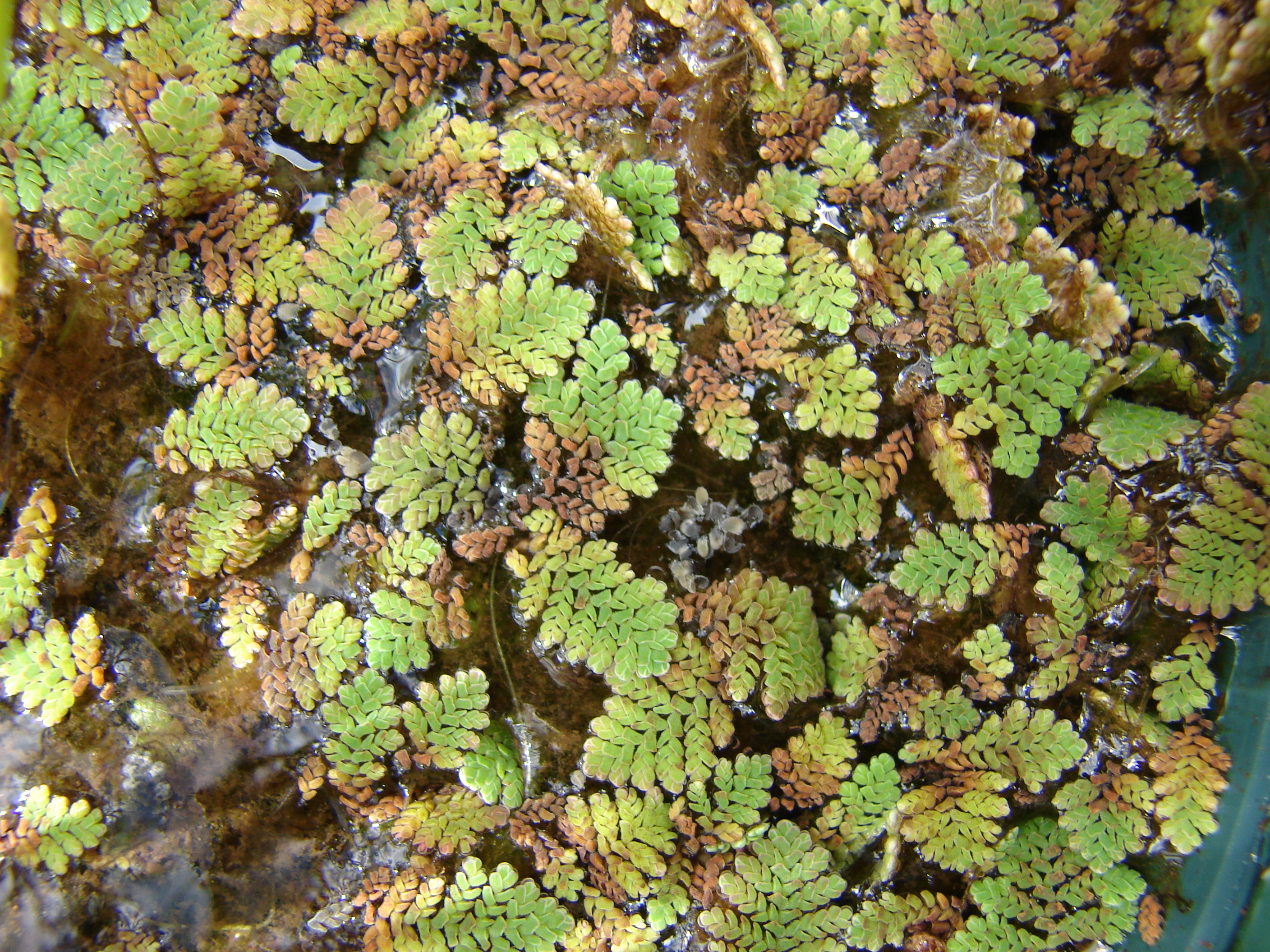 Azolla filiculoides (in water feature). Location: Maui, Kula Ace Hardware and Nursery